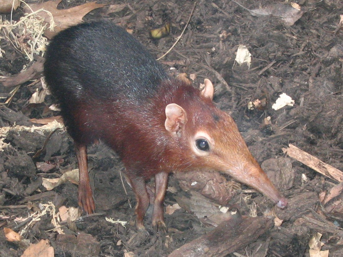 A picture of a male Black and Rufous Elephant Shrew at the National Zoo. The Elephant shrew is part of the small mammals exhibit at the zoo.